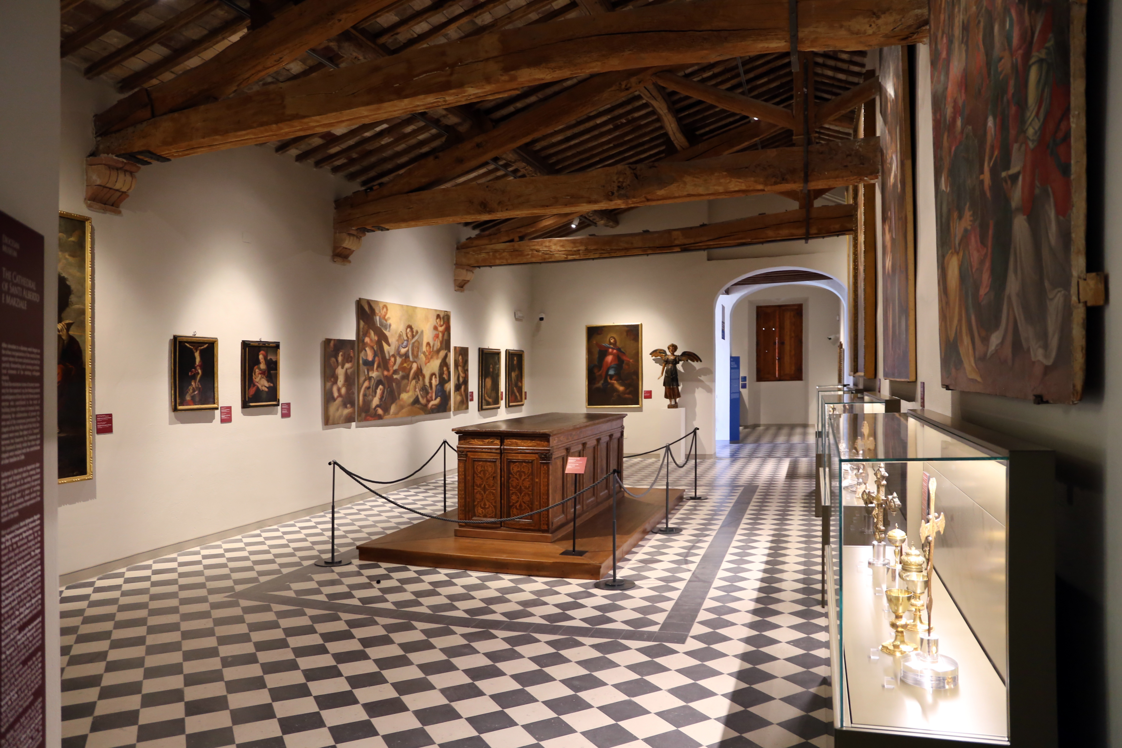 Museo San Pietro (Colle di Val d'Elsa)